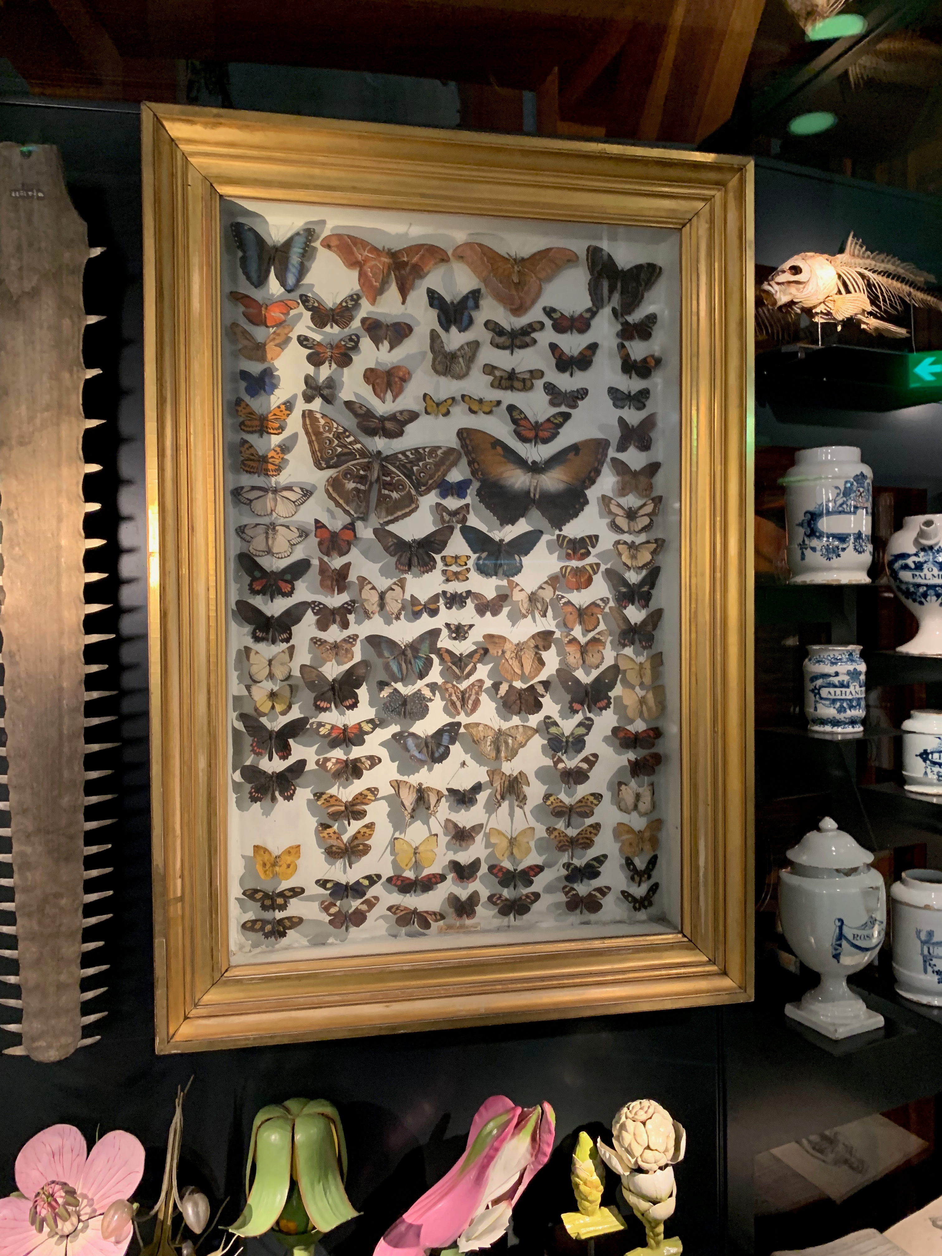 The case contains butterflies, not the real ones, by sculptured of papier-maché after nature by the Surinam artist Gerrit Schouten (1779 - 1839). (Rijksmuseum Boerhaave, Leiden)